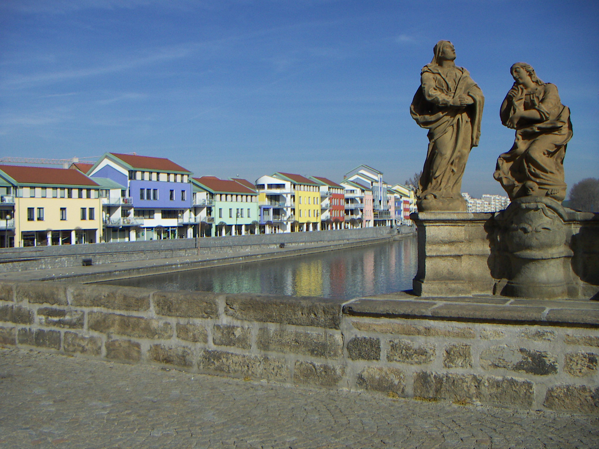 New riverbank buildings in Písek with a statue on the old bridge, Czech Republic Česky: Nové nábřeží v Písku se sochou na starém mostu